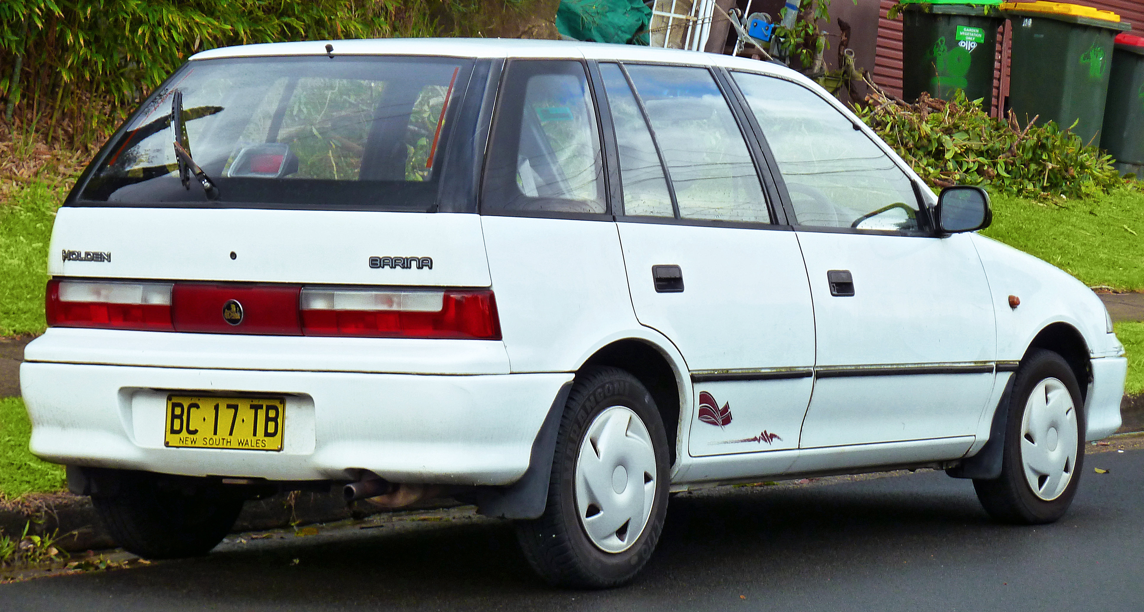 1993 Holden Barina (MH) 5-door hatchback. Photographed in Castle Cove, New South Wales, Australia.